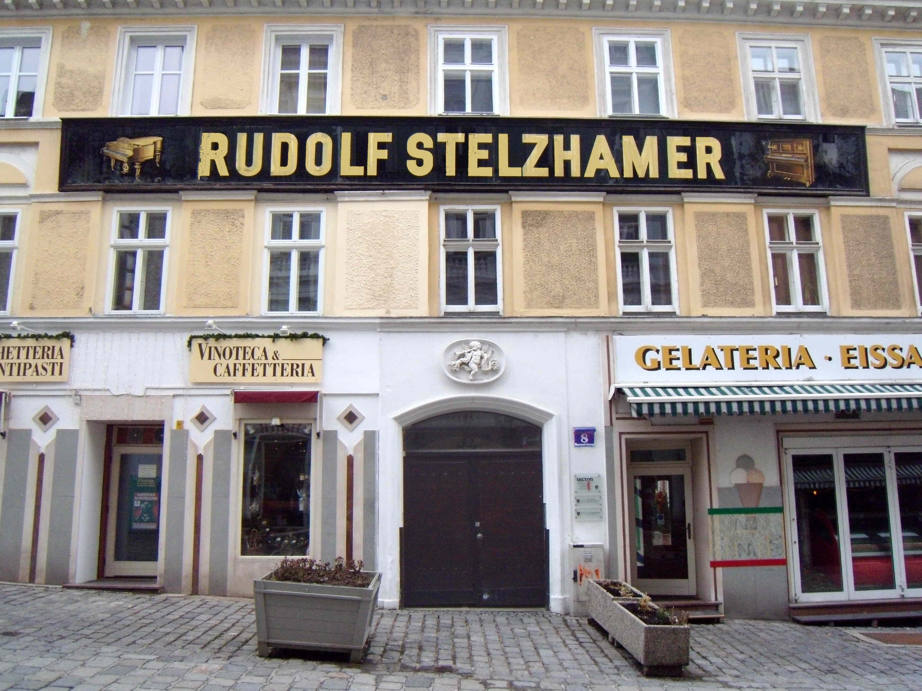 Barnabitengasse 8, Mariahilf, 1060 Vienna, Austria